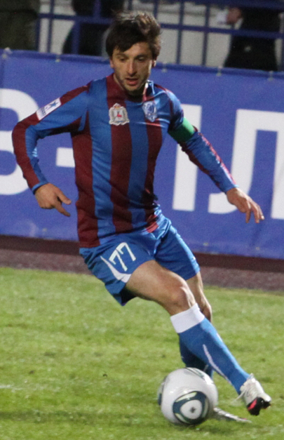 Otar Martsvaladze with FC Volga Nizhny Novgorod